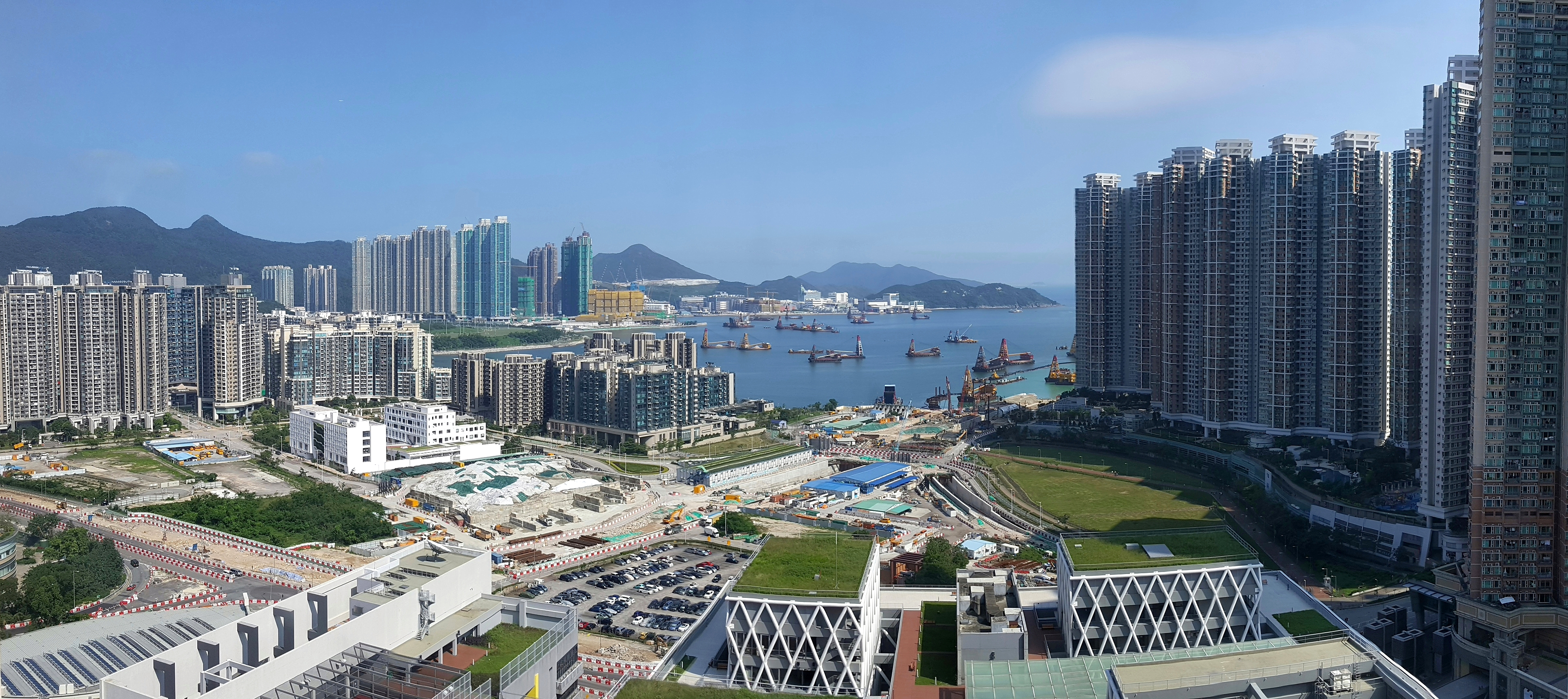 Tiu Keng Leng to Tseung Kwan O 2019 05 Panorama view